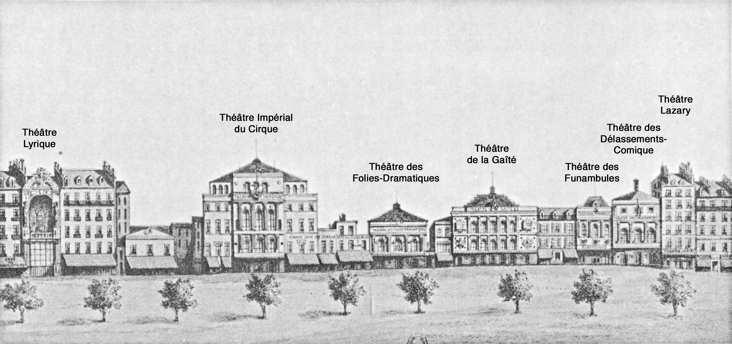 Theatres of the boulevard du Temple (with labels added using Photoshop Elements 4). Theatre names are from Galignani's New Paris Guide for 1862, Paris: Galignani. See pp. 467, 469–471, at Google Books.